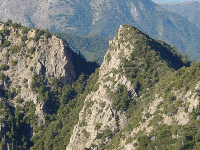 The "Window" seen from the Ventana Doublecone peak in the Ventana Wilderness in California,United States.